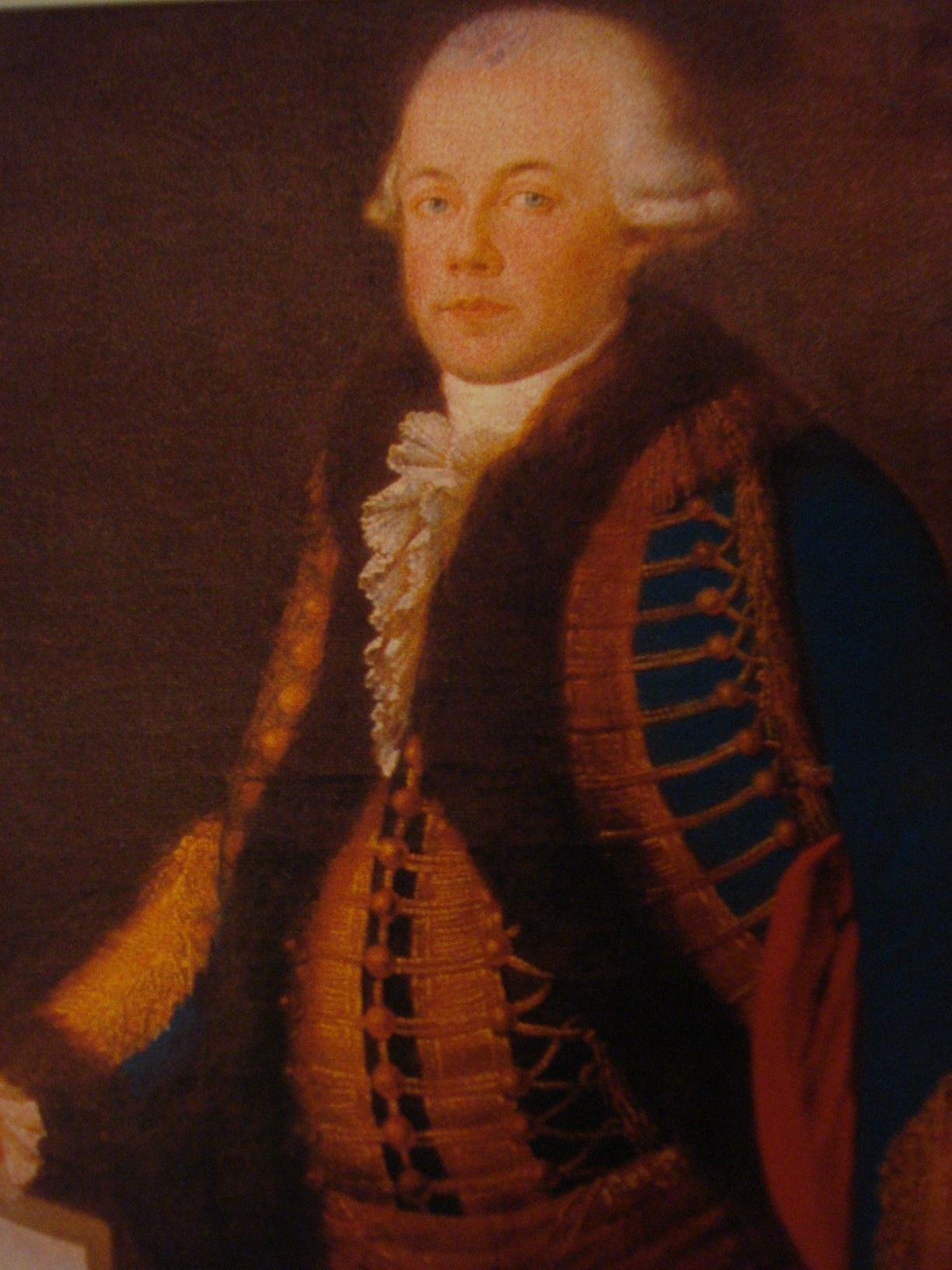 Michael Ivan /Johann/ Althan (1757-1815), Austrian aristocrat